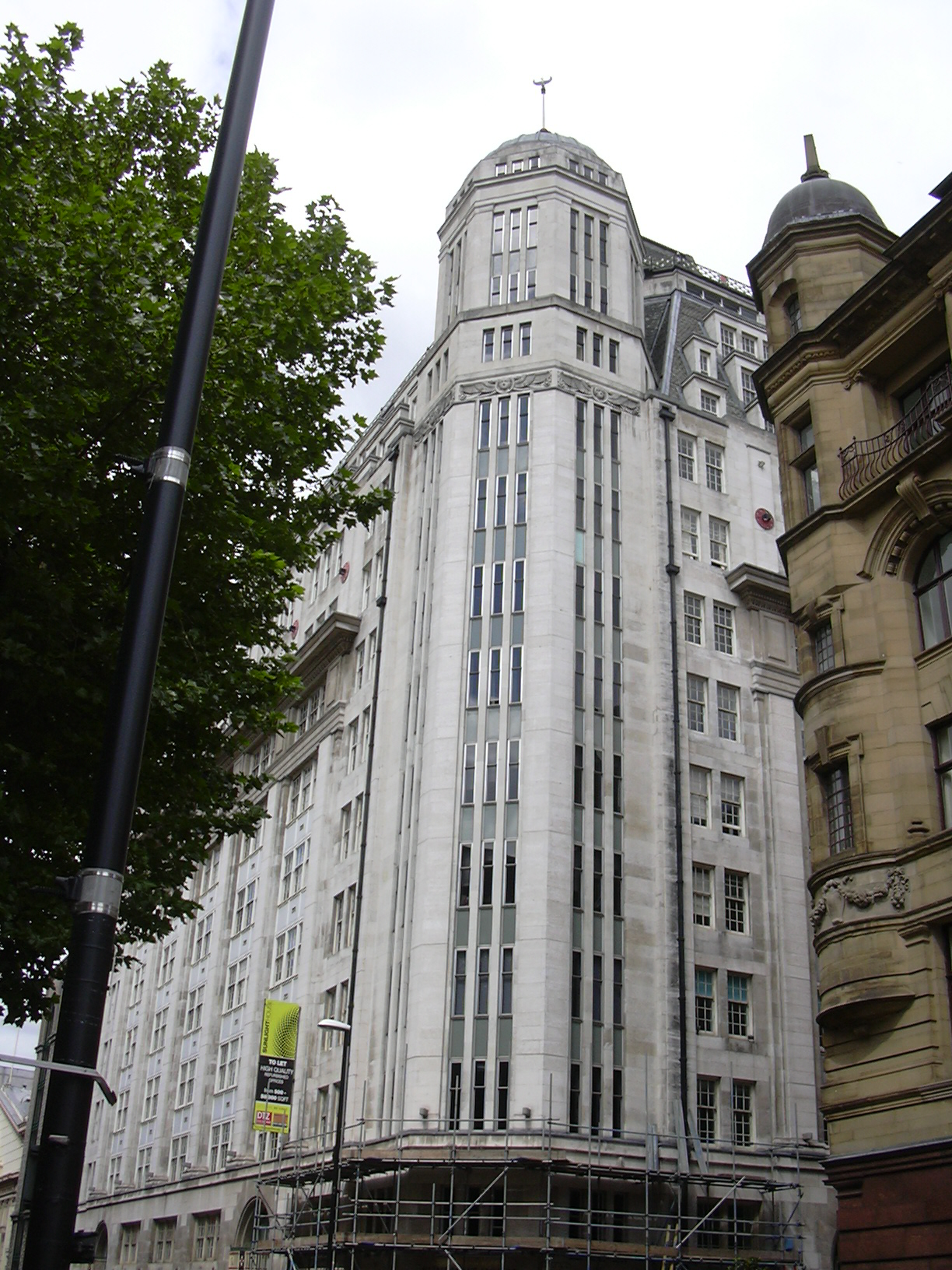 Photograph of Sunlight House, Manchester, England